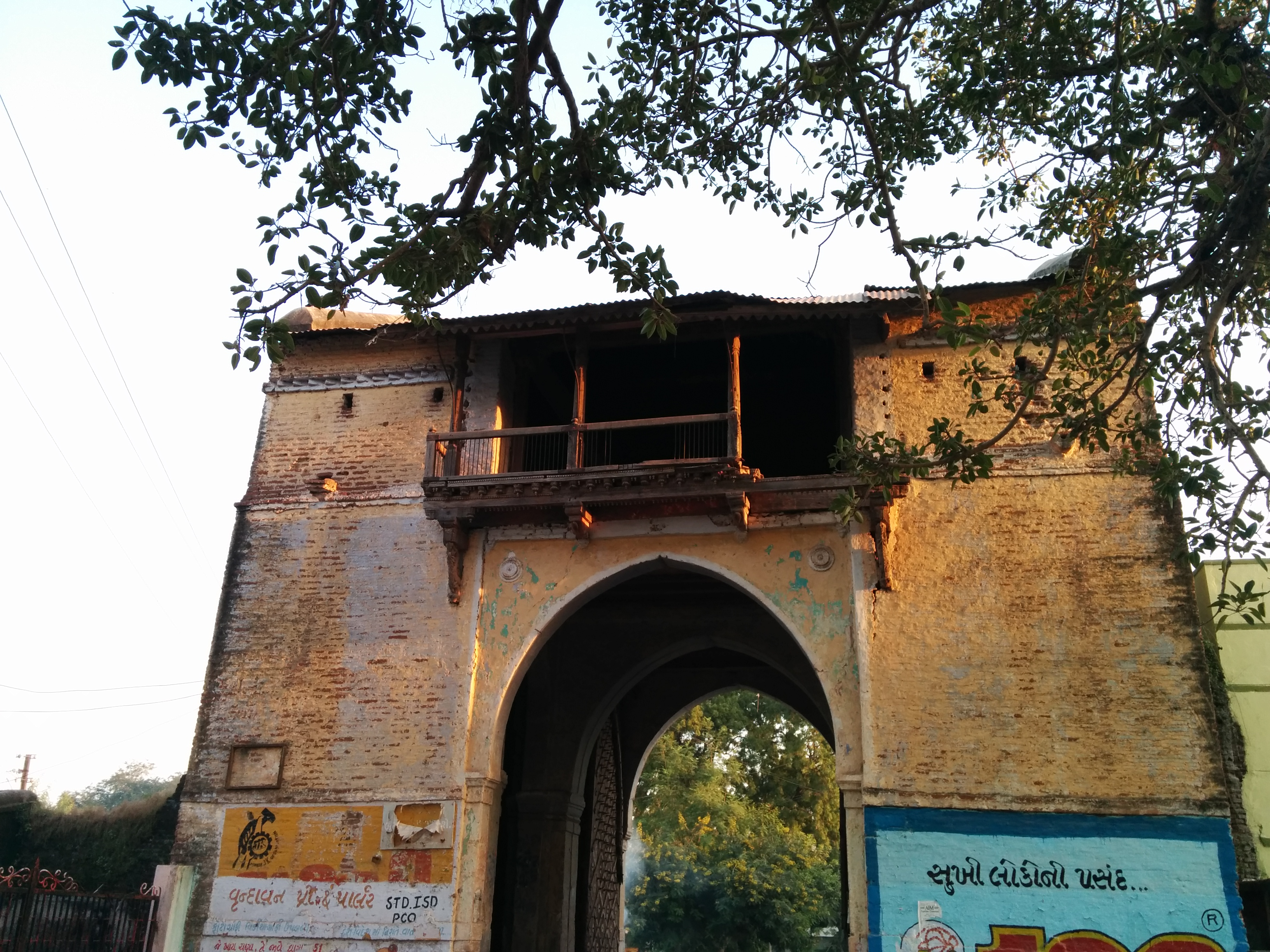 Mira Darwajo or Gate in Palanpur. Only gate left out of original 7 gates in walled city.